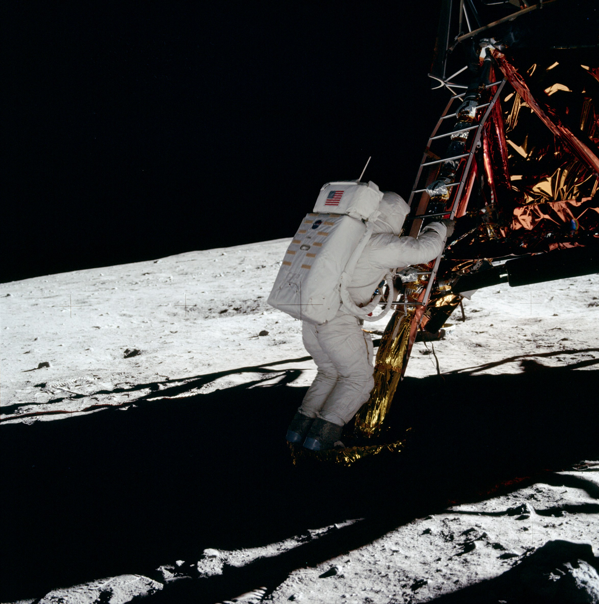 NASA photo AS11-40-5869; Buzz Aldrin in the moon